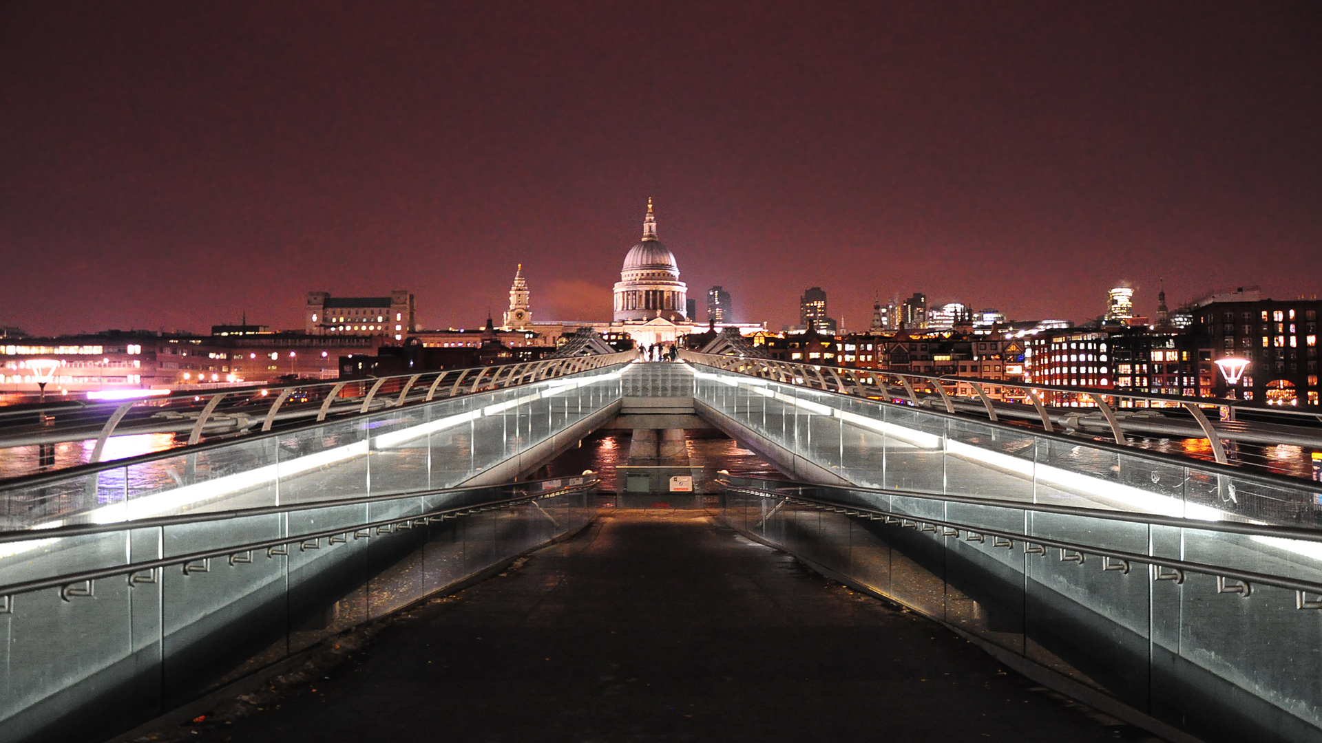 The Millennium Bridge at night